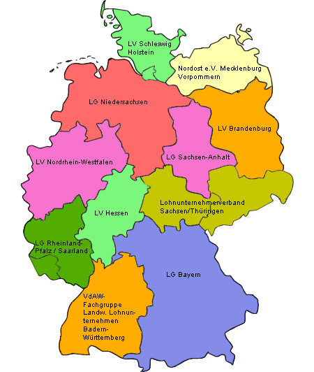 Landesverbände und Landesgruppen des BLU